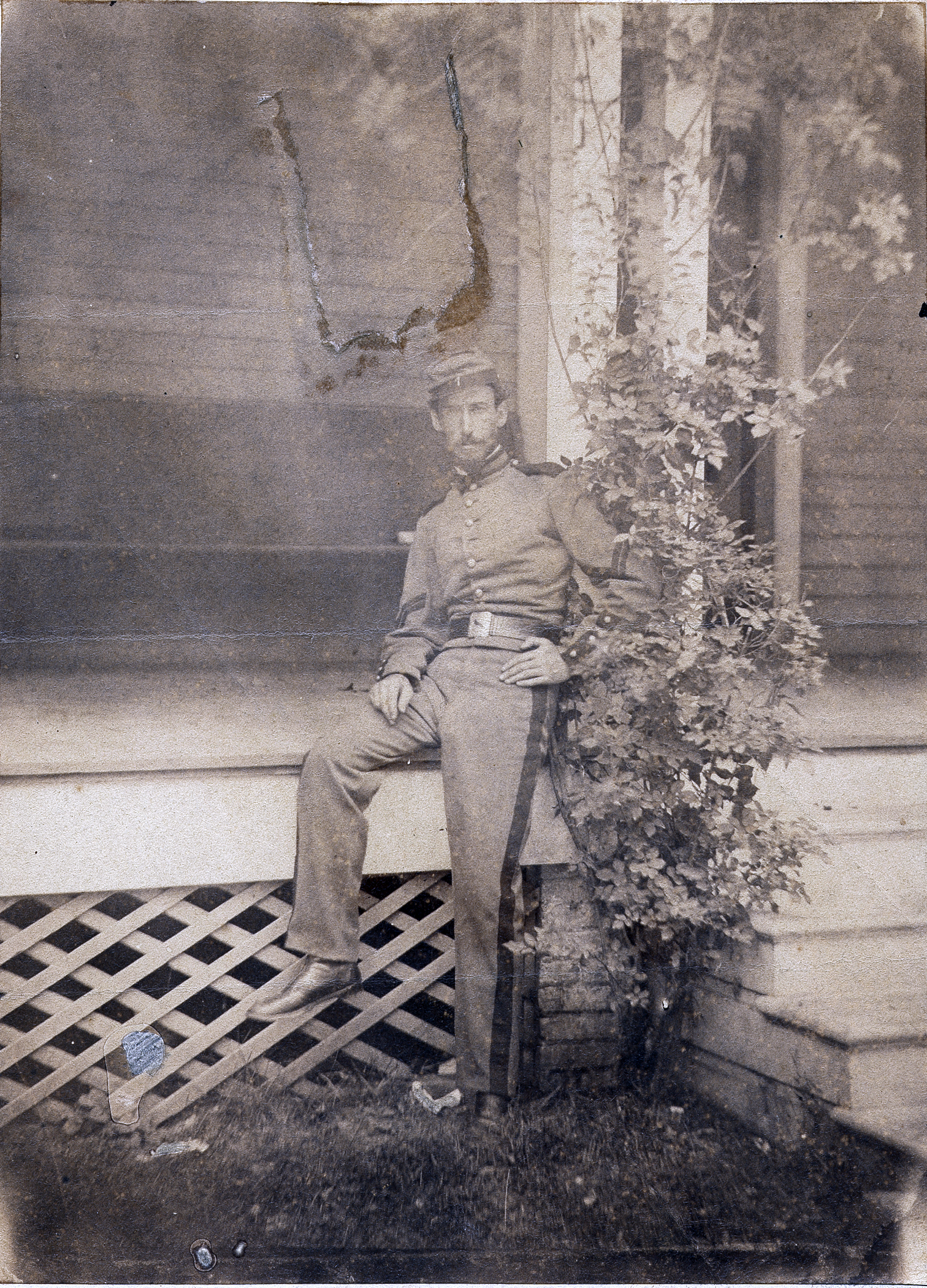 Sanford Robinson Gifford, American landscape painter